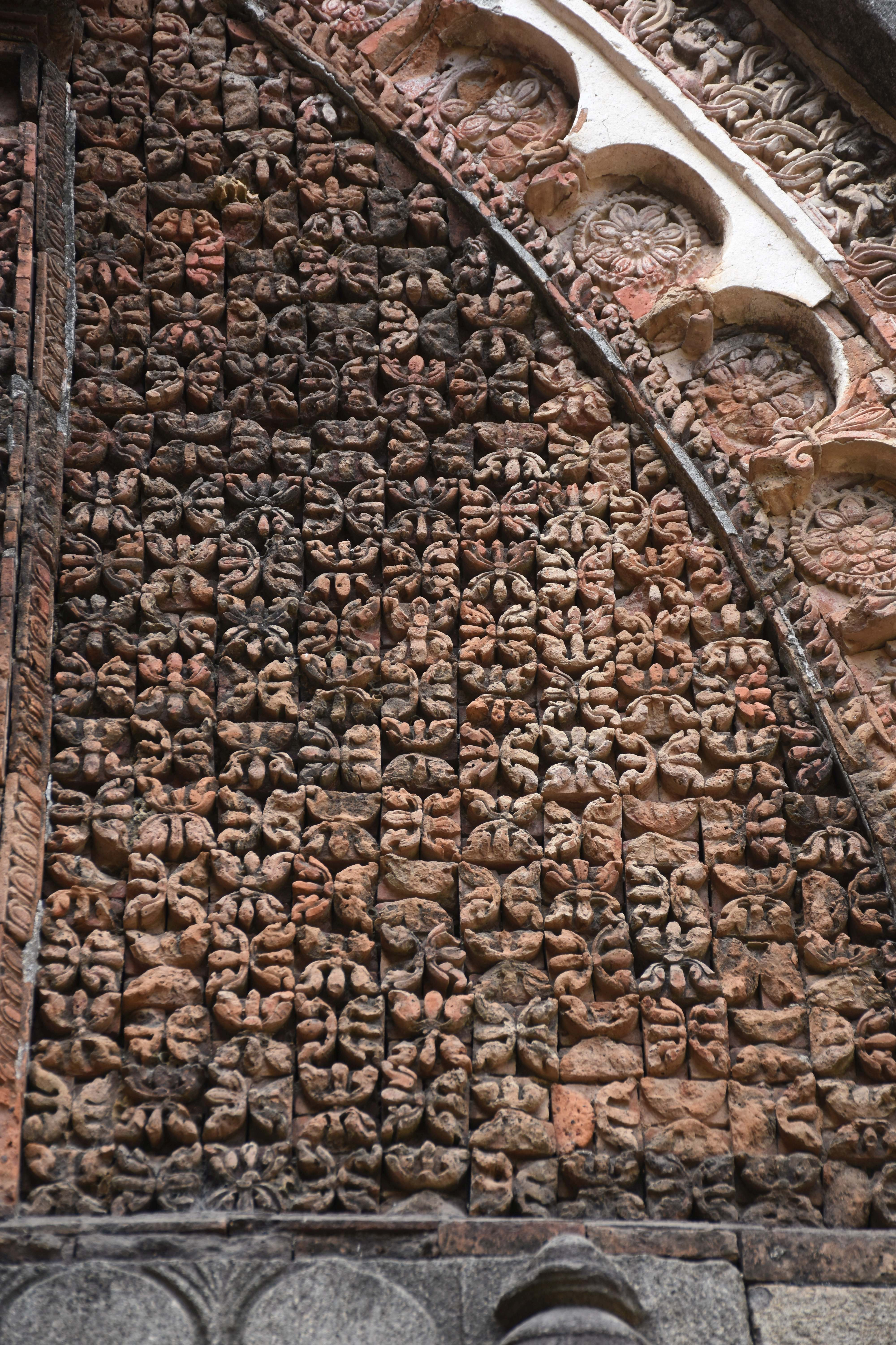 Motifs and works at Adina Mosque